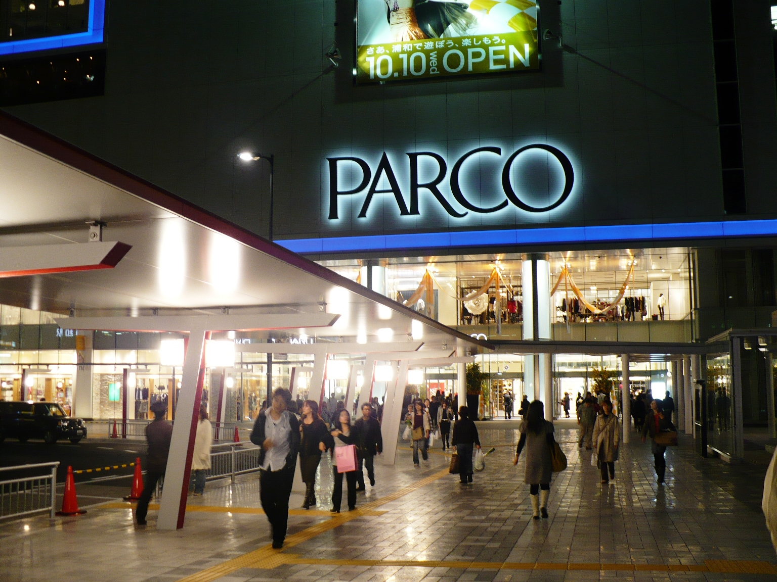 The Night Ccene of East Exit of Urawa Station